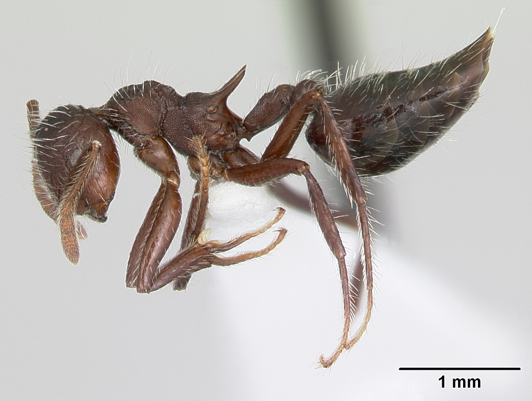 Profile view of ant Crematogaster acuta specimen casent0173927.